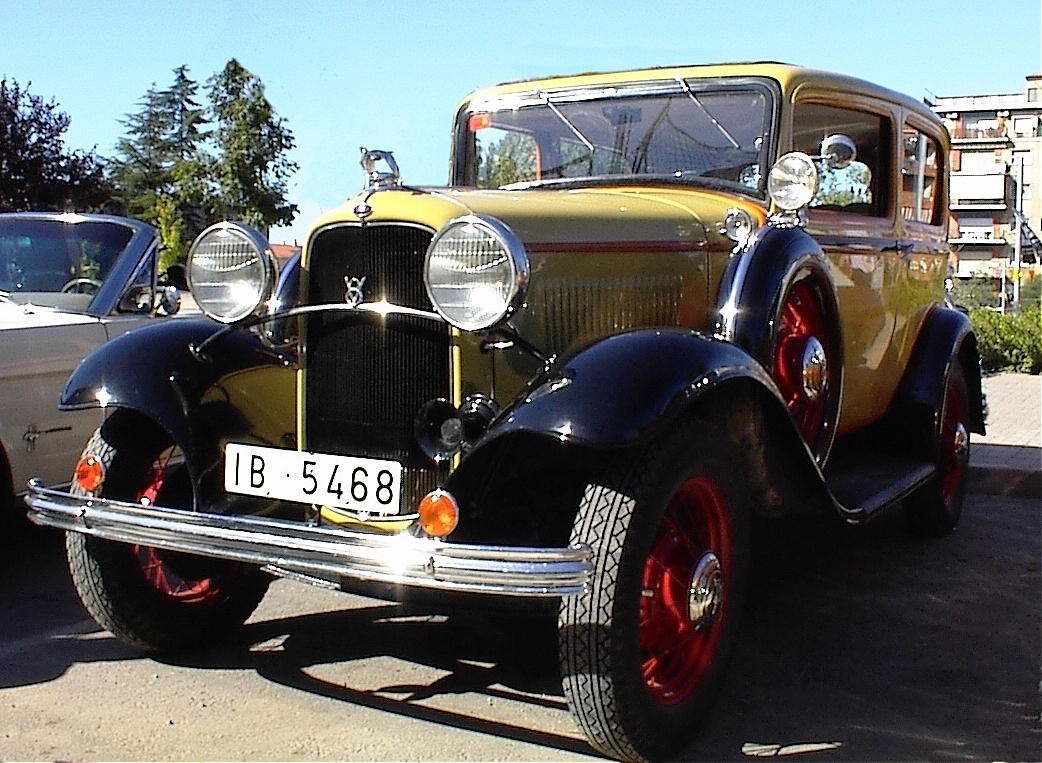 Ford 18 V8 Coach 1932 from Barcelona